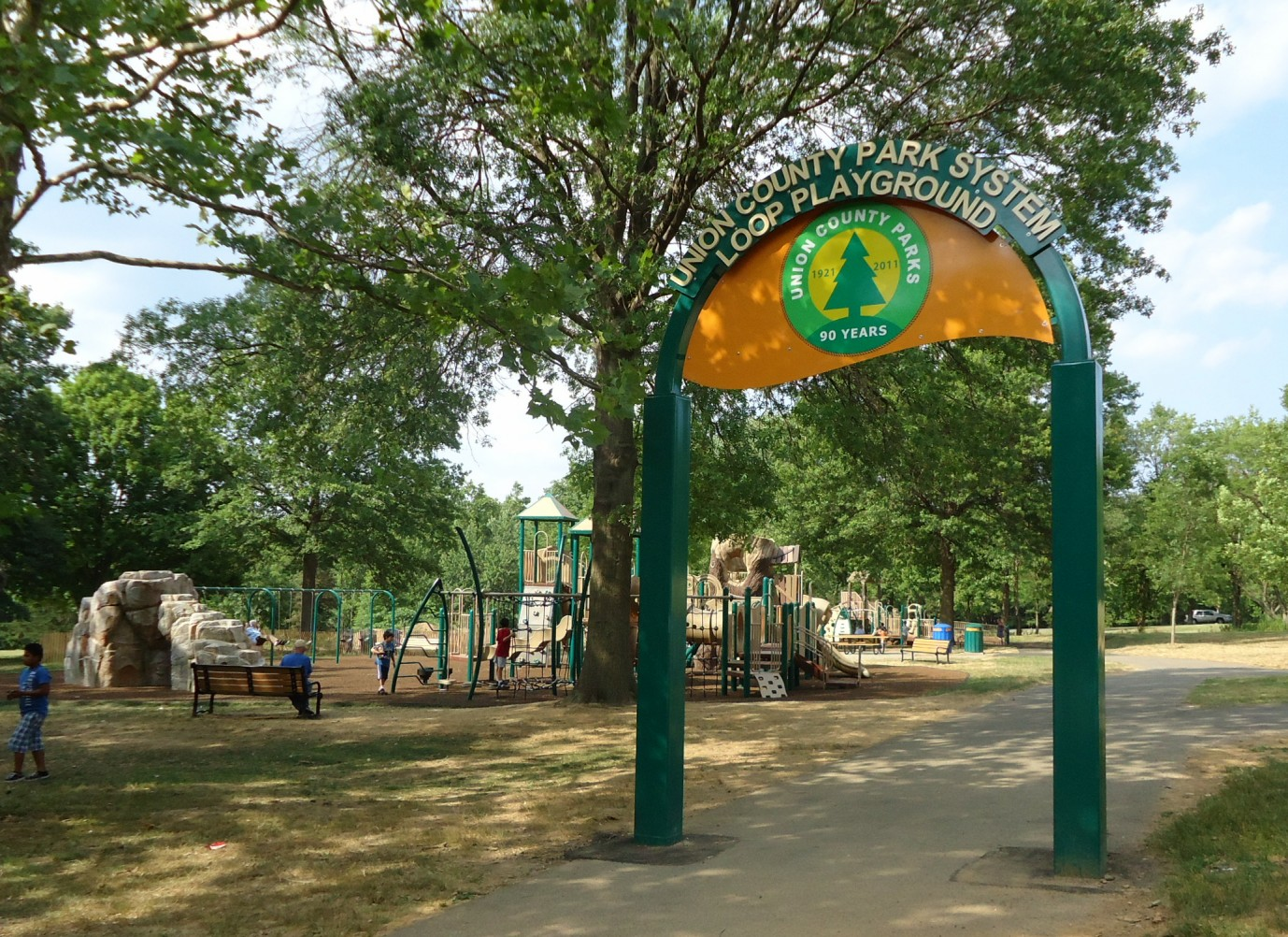 Playground for children in Watchung, New Jersey.